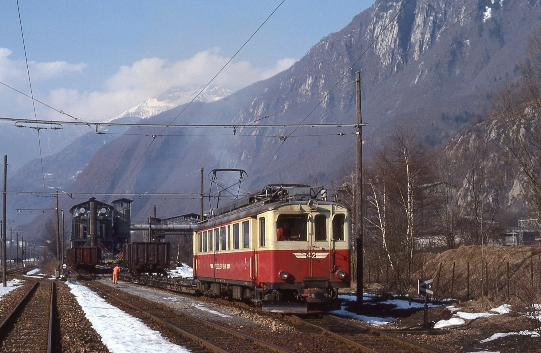 Former Appenzellerbahn ABe 4/4 42 shunting a freight train at Valmoesa steelworks.